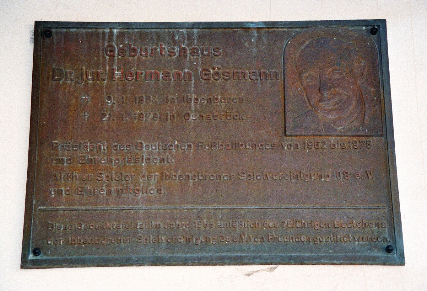 Memorial plate for Hermann Gösmann (1904-1979), sixth president of the German Football Association, at his birthplace Haus Elfers in the city centre (Oberer Markt) of Ibbenbüren, Kreis Steinfurt, North Rhine-Westphalia, Germany.